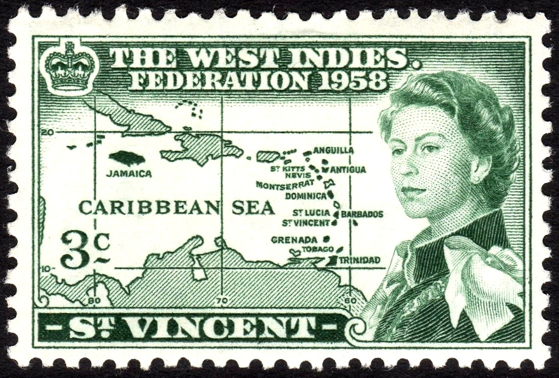 St. Vincent 3c West Indies Federation stamp 1958.